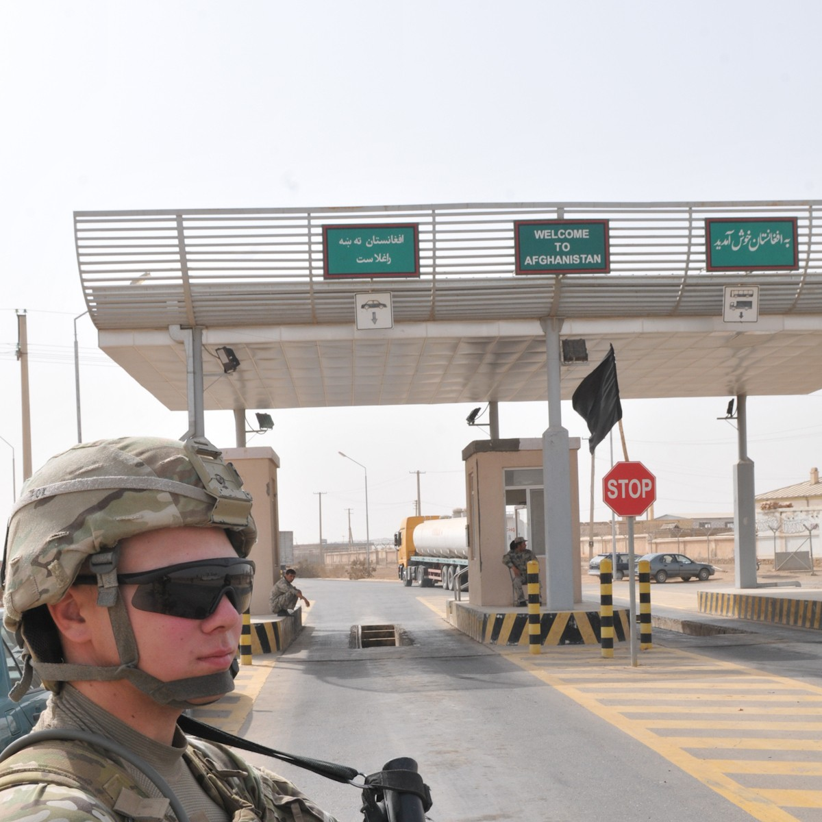 U.S. Army Spc. Devin Fox, a Columbus, Neb., native, now a combat engineer with A Company, 40th Engineer Battalion, 170th Infantry Brigade Combat Team, stands guard near the Shir Khan border crossing point Oct. 3, 2011. The platoon provided security for a group of civilian professionals who train Afghan Border Police.